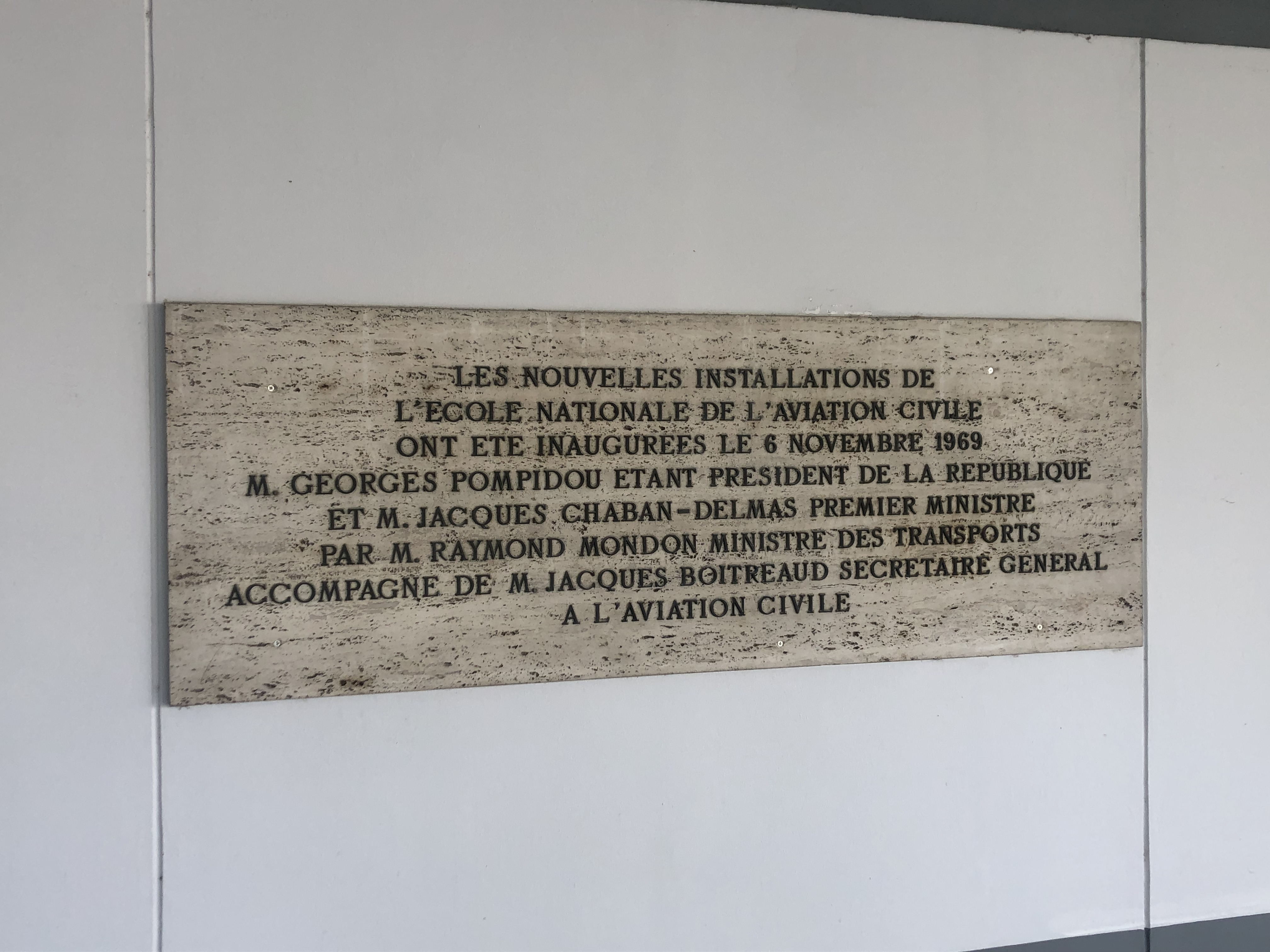 Commemorative plaque for the inauguration of the ENAC (French Civil Aviation University) Toulouse campus in 1969